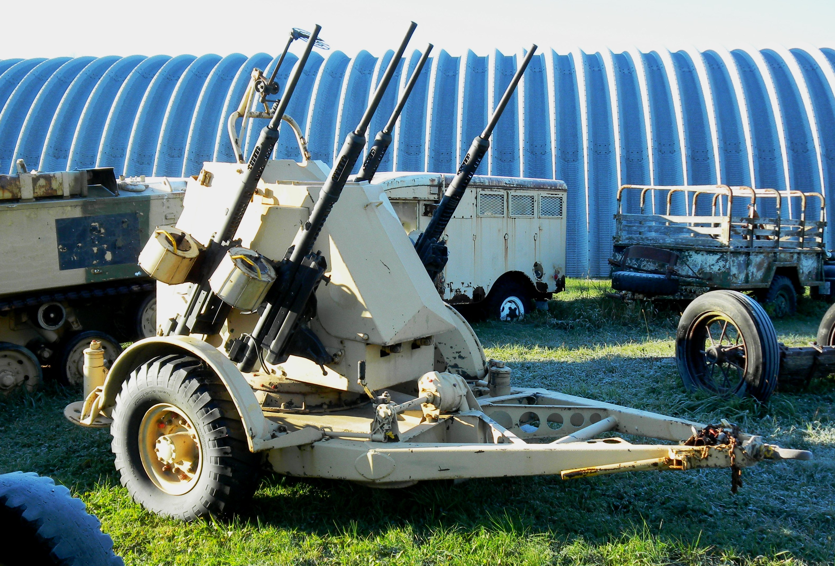 Canadian Polsten 20-mm towed quadruple-barrelled AA Gun, Swords & Poughshares Museum, Kars, Ontario. The Polsten 20-mm Quad AA Gun was a low cost Polish development of the 20-mm Oerlikon gun. Both the Oerlikon and the Polsten used similar 60 round drum magazines; however, the Polsten could use a simpler box magazine with 30 rounds. It remained in service into the 1950s.